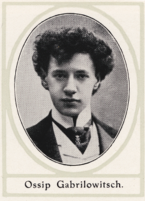 Ossip Gabrilowitsch, 7 February 1878 – 14 September 1936, Russian-American pianist. Reproduction (scan) of a photo: Scan from company catalogue by Welte & Sons ca. 1906, photographer unknown